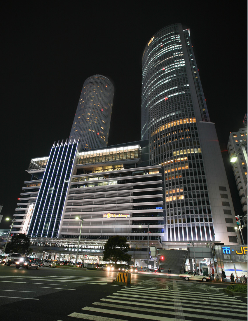 JR Central Towers, Nagoya